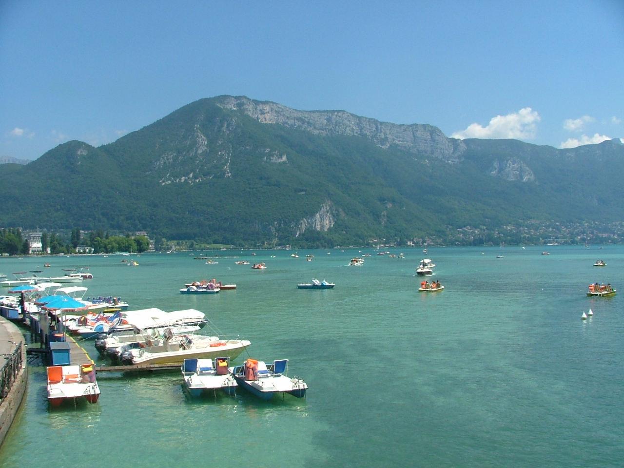 View of the lake of Annecy, France